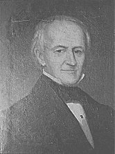 A copy of a portrait of Henry Hubbard